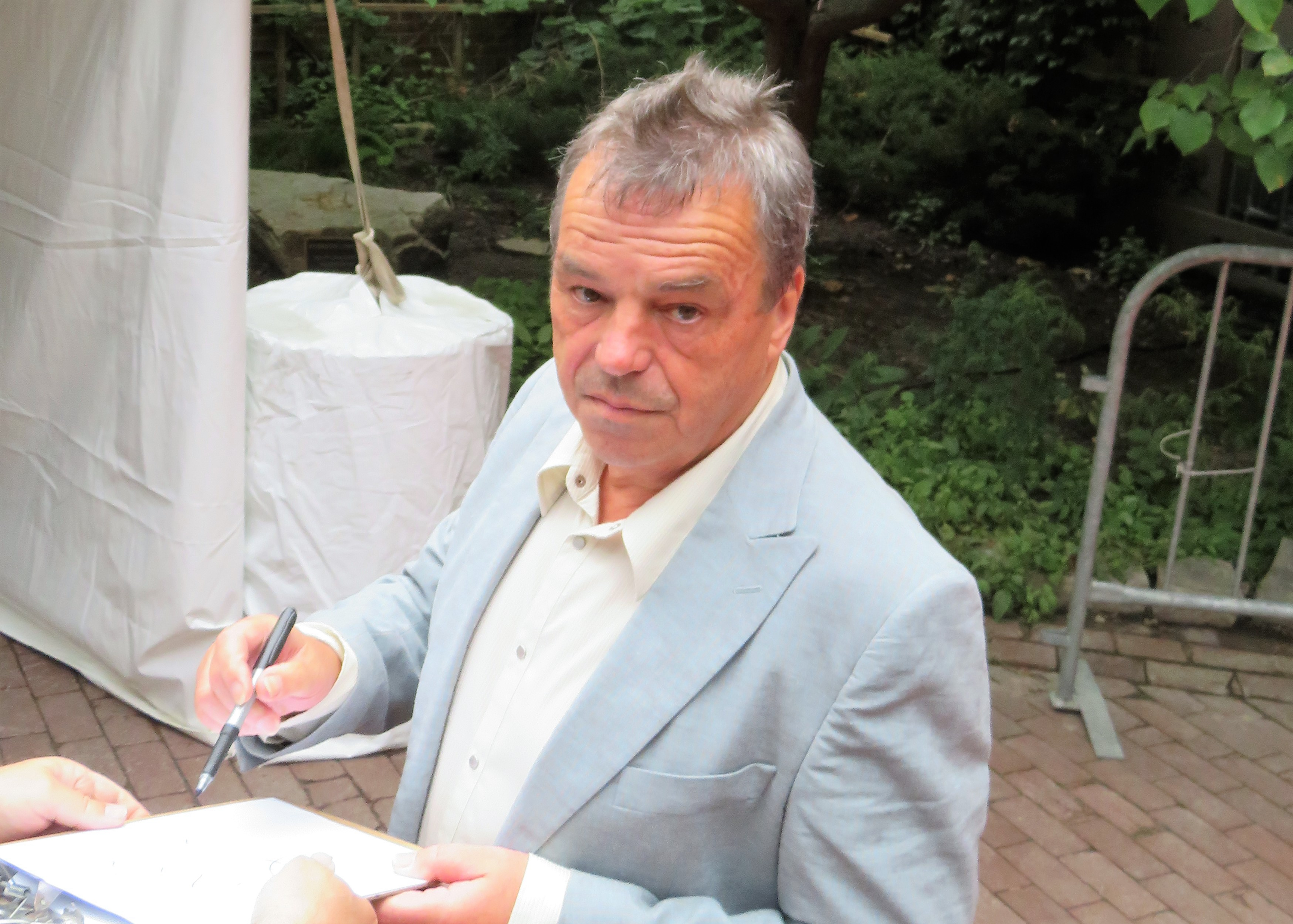 Neil Jordan at the premiere of Greta, 2018 Toronto Film Festival.